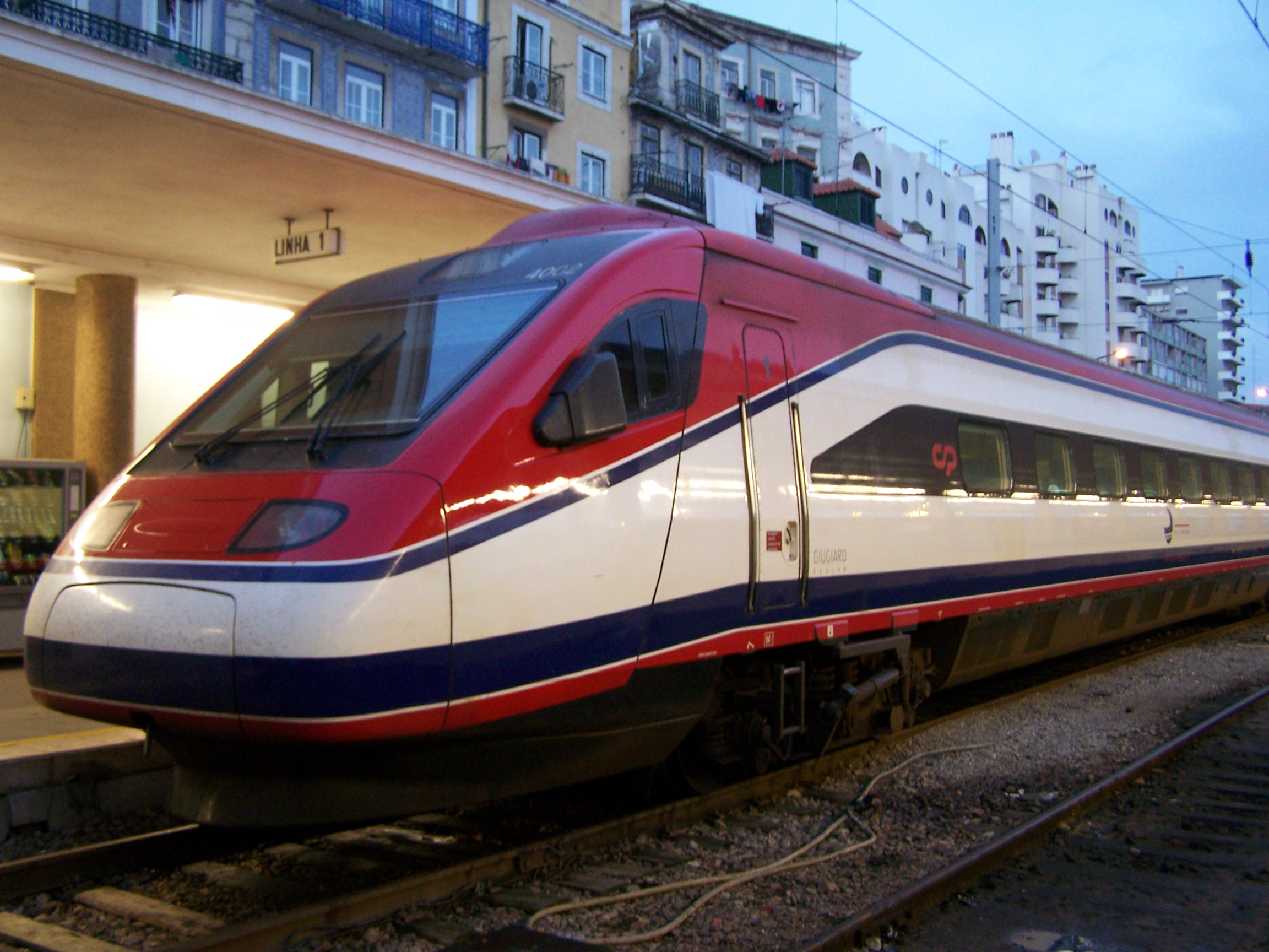 The portuguese high-speed train Alfa Pendular in Lisboa Santa Apolónia